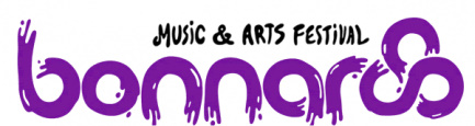 Not trademarked or copyrighted, open to public domain